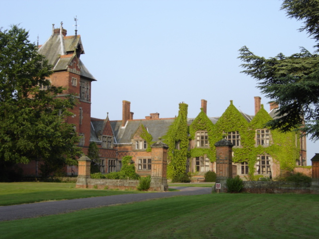 Cloverley Hall, Christian Conference Centre. Built in the 1800s, once used as a Boy's school, now operates as a Christian Conference Centre.